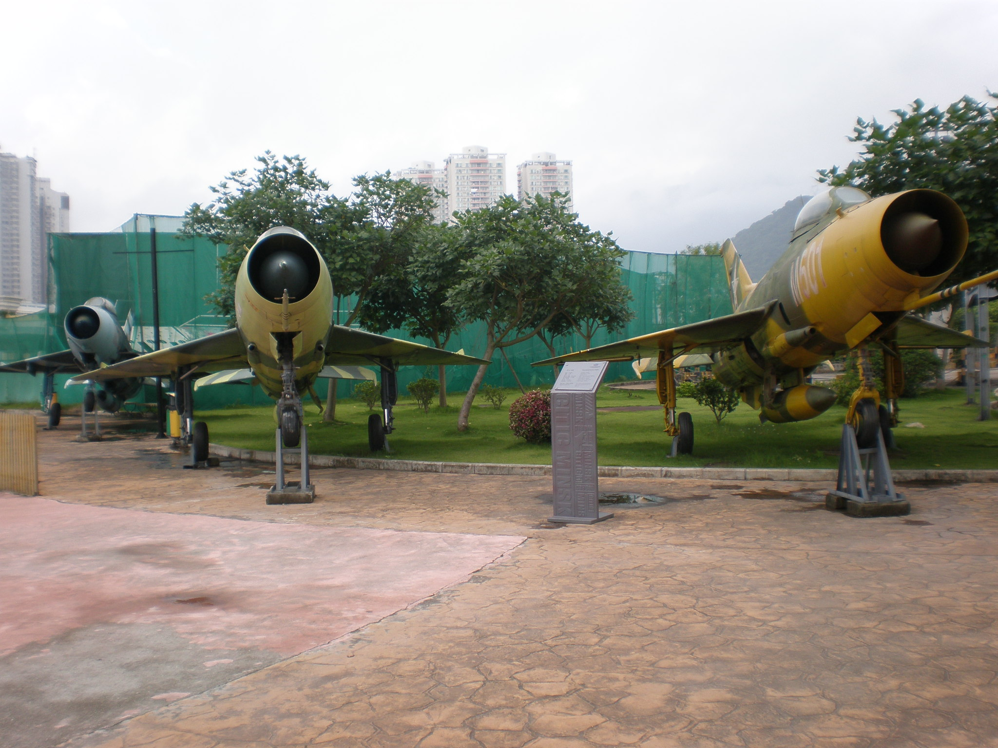 Three Chengdu J-7s on display at the Minsk World theme park in Shenzhen, PRC.